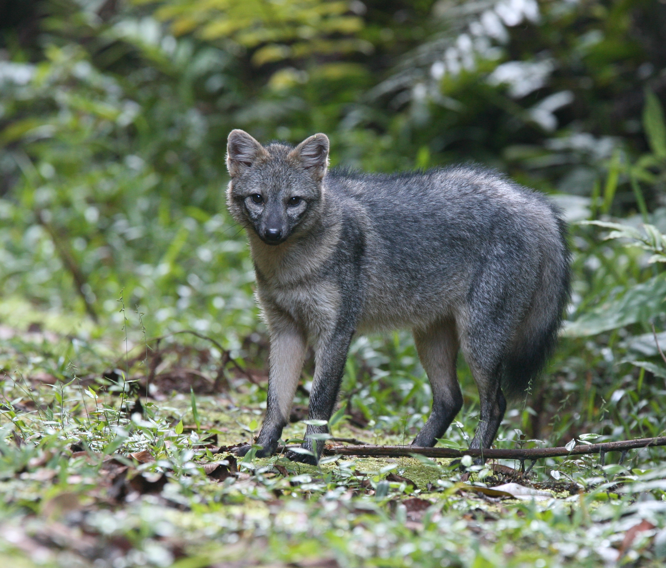 Crab-eating Fox in ProAves Cerulean Warbler Reserve, San Vincente, Colombia